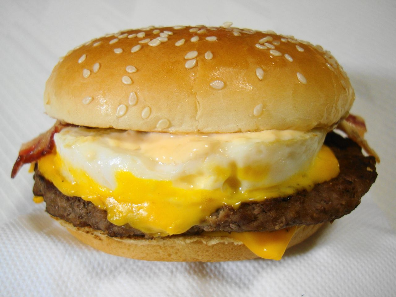 McDonald's Japan "Dai-Tsukimi burger"